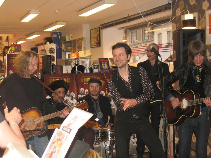 The Ark at an in-store performance Rock å Folk Malmö - February 24 2011